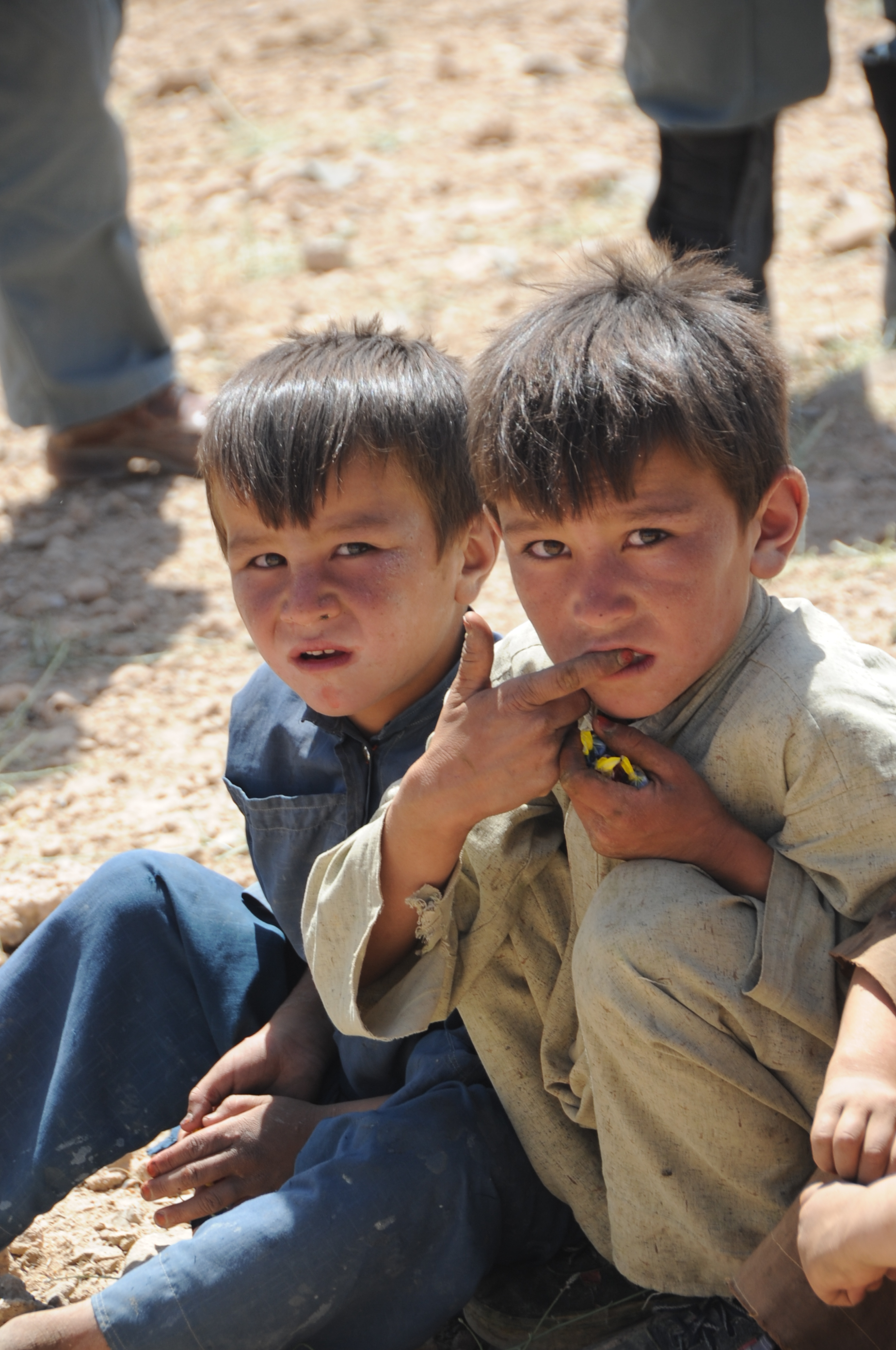 Hazara children in the remote province of Daykundi enjoy candy provided by U.S. Forces during a visit to a U.S. Army Corps of Engineers construction project. (USACE photo by Karla K. Marshall)